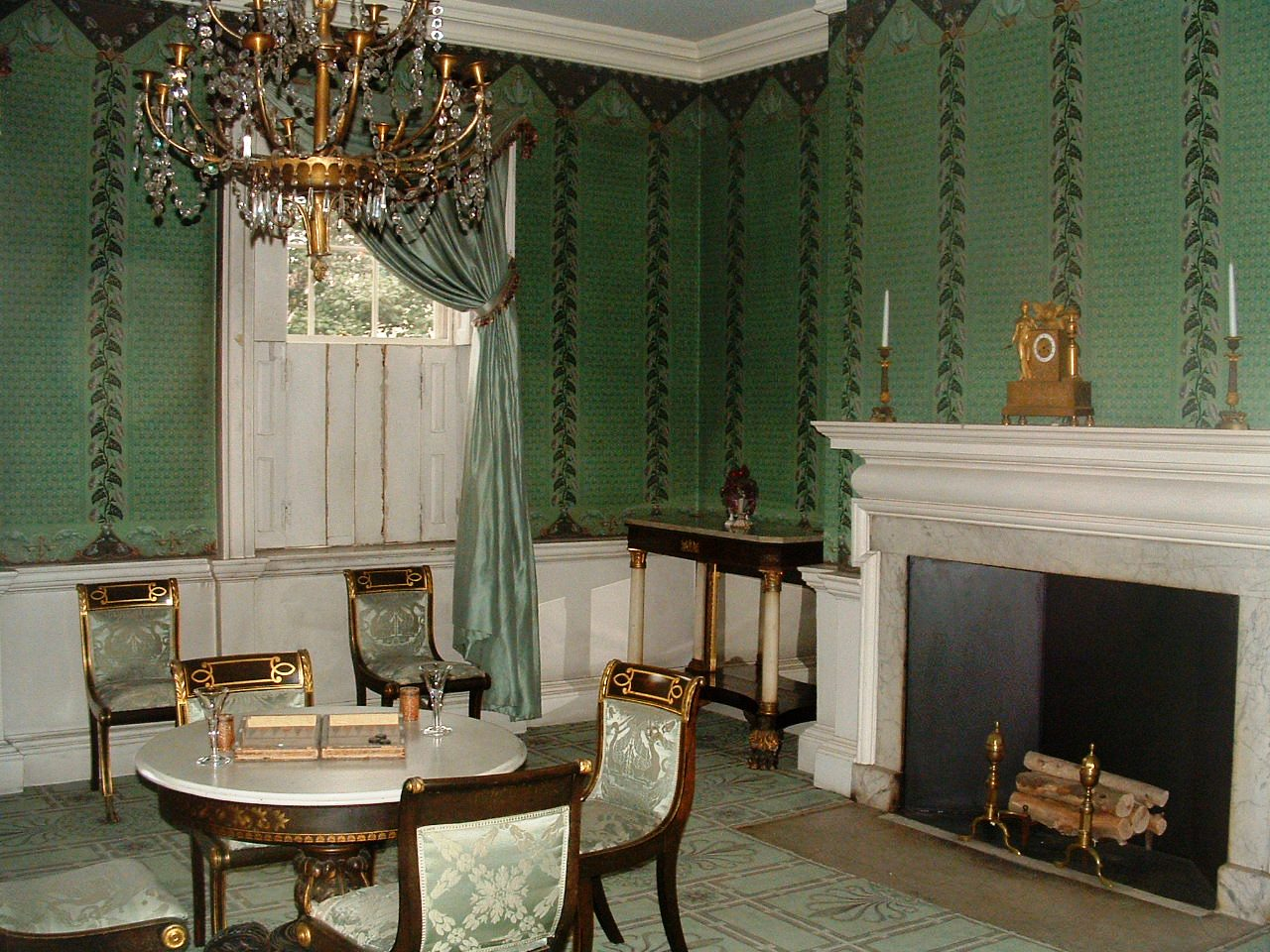 Inside the Morris-Jumel Mansion in New York City.